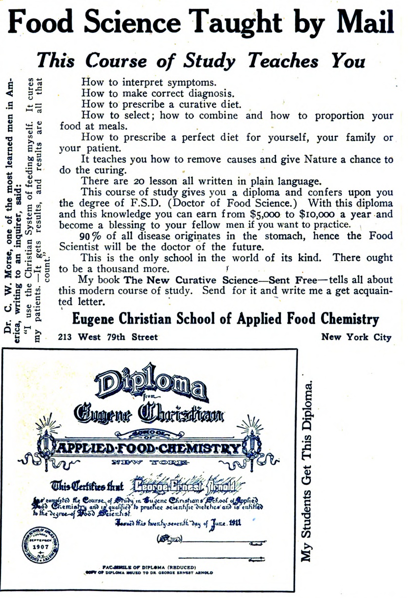 Eugene Christian School of Applied Chemistry advert from 1913